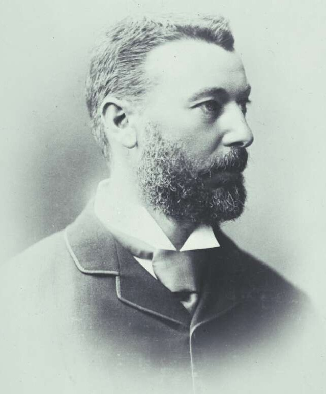 John Winthrop Hackett From the 1898 Australasian Federal Convention Album.